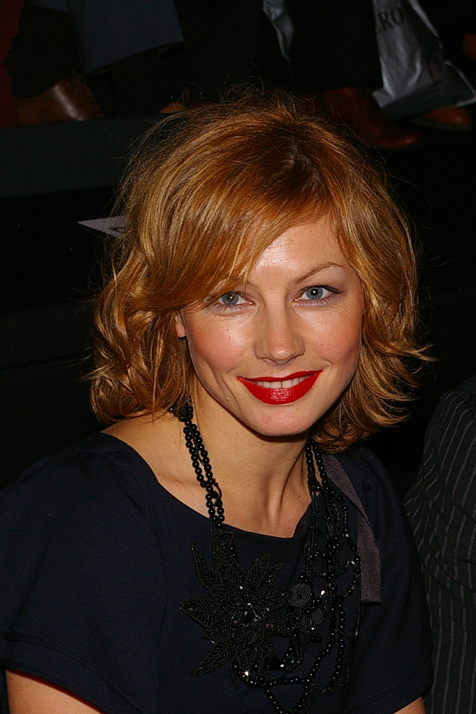 Yelena Babenko